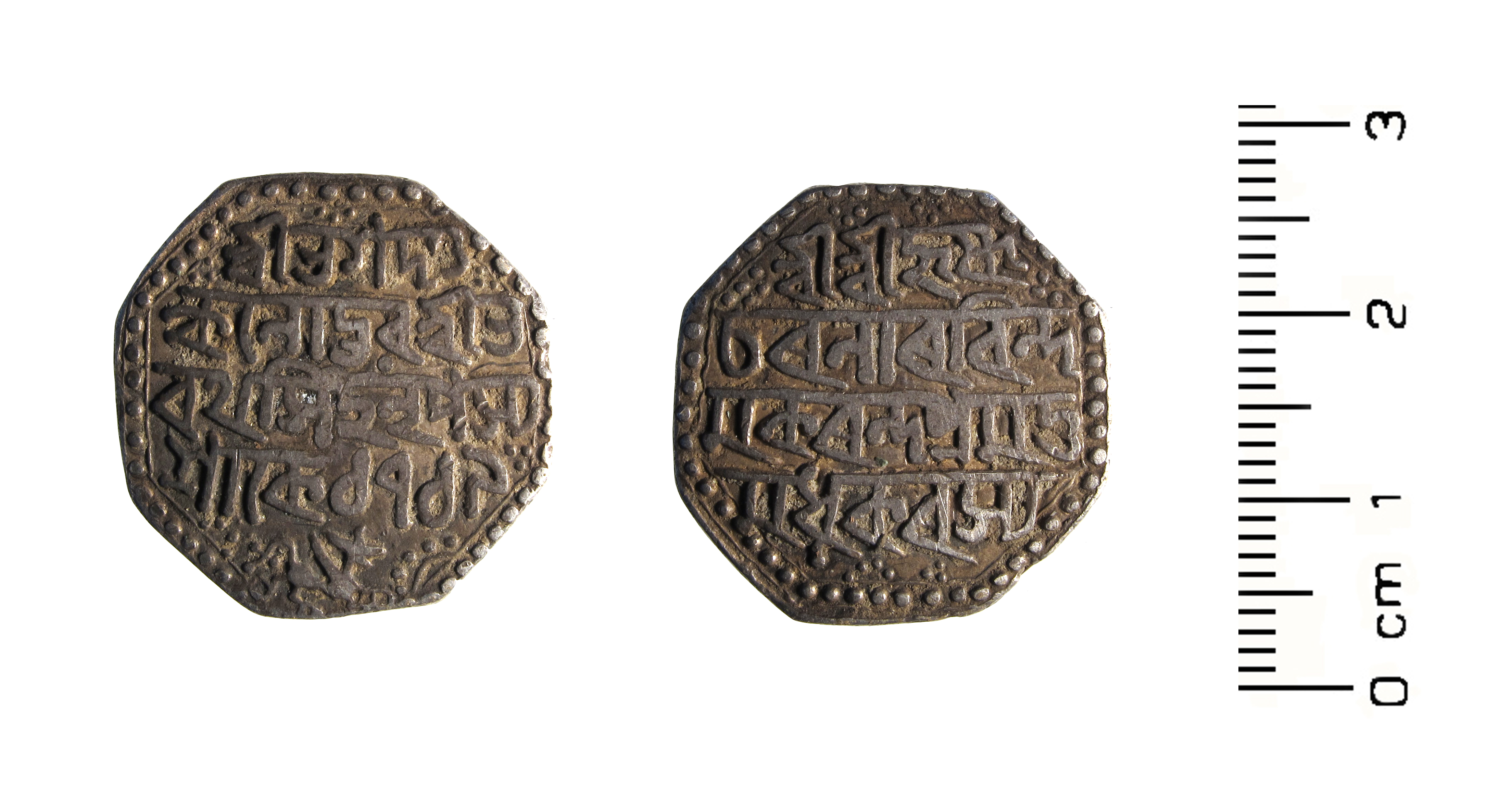 A late 18th century Rupee from Assam, but a rather rare issue - struck during a tribal rebellion against the reigning king Gaurinatha Simha of the Ahom. dynasty. The rebellion lasted for about 10 years (1787-1797) and was led by Bharatha Simha of the Moamaria tribe, who forced Gaurinatha Simha to flee his capital Rangpur. Bharatha Simha was then installed as the king at Rangpur and struck coins in two phases - first during the king's exile 1791-1794 and then after his eventual death 1796-97. This coin bears the date 1719 in the Indian reckoning, so it dated to 1797AD and thus falls in the second issue of Bharatha Simha. The inscription is in Bengali script - on obverse it mentions the name of the king as a descendent of Bhagadatta (a mythical Hero) and the date; on reverse it extols the King's devotion to Lord Krishna by calling him 'the Bee who got drunk on the nectar from the lotus placed at the feet of the Lord'! Dimensions: 22.5 length, 22.8mm width, and 2.6mm thick. weight 11.12 grams Sincere thanks are extended to Dr Shailendra Bhandare, Ashmolean Museum, Oxford for her help in the identification of this unusual British find